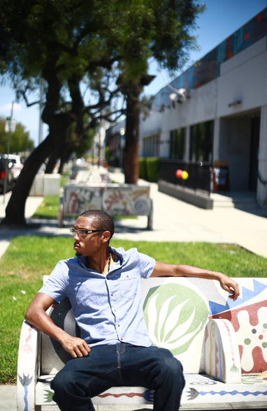 JHawk shooting with Adrian J for 22EP in August 2014